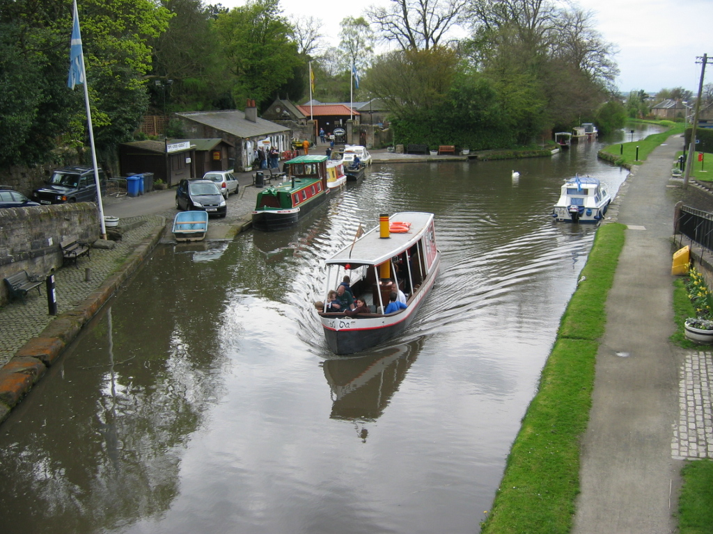 Linlithgow Union Canal Society's Tripboat "Victoria"